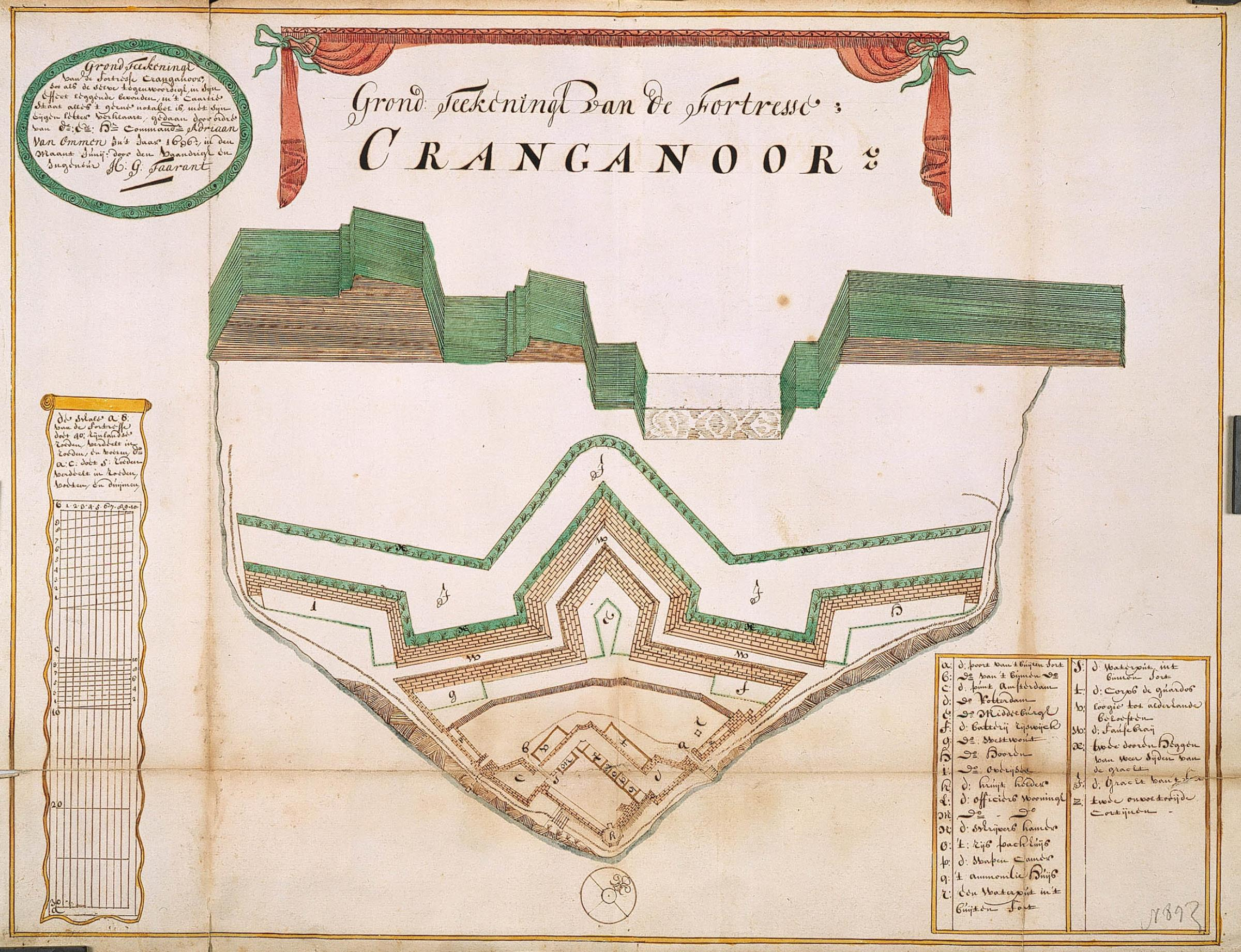 According to catalogue Leupe (NA), the original title reads: Grond-Teekening van de Fortresse Cranganoor, soo als deselve tegenwoordigh in syn effect leggende bevonden in 't caartie staat enz. The Letters and Papers brought over [Overgekomen Brieven en Papieren] are dated: 1703 Key: a-z Map and cross-section of the fortifications of the fort at Cranganoor. Compare VEL0889. Notes on reverse: nr. 499 w; 829; 1703 nr. 5 [829 folio?]. Topographical names mentioned on this chart: punt Amsterdam, punt Rotterdam, punt Middelburgh, batterij Rijswijck, Westwout [?], Overijsel.